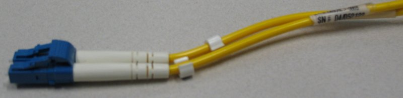 LC fiber optic patch lead